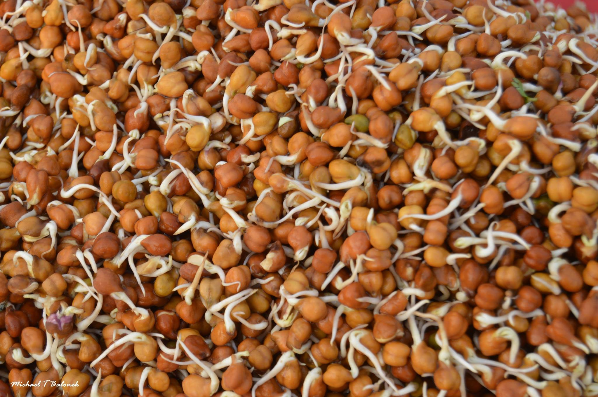 Tasty snacks This photo has been taken in the country: India